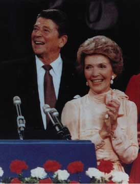 Ronald Reagan and Nancy Reagan at the 1980 Republican National Convention.